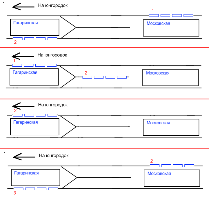 Scheme of the organization of traffic in the area "Gagarinskaya" - "Moscovskaya" before the opening of the station "Rossiskaya" in the Samara metro